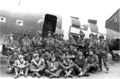 A group of Pathfinders in front of a C-47 transport before takeoff. During World War II, the pathfinders were a group of volunteers selected within the Airborne units who were specially trained to operate navigation aids to guide the main airborne body to the drop zones. At 21.30 hours on June 5, about 200 pathfinders began to take off from North Witham, for the Cotentin Peninsula, in 20 C-47 aircraft of 9th Troop Carrier Command Pathfinder Group. They began to drop at 00.15 on June 6, to prepare the drop zones for the 82nd and 101st Airborne Divisions. They were the first US troops on the ground on D-Day.